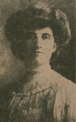 Clara Brett Martin. Martin graduated from Trinity in 1890. In 1897, she graduated from Osgoode Law School and was admitted to the Bar, becoming Canada's first female lawyer.